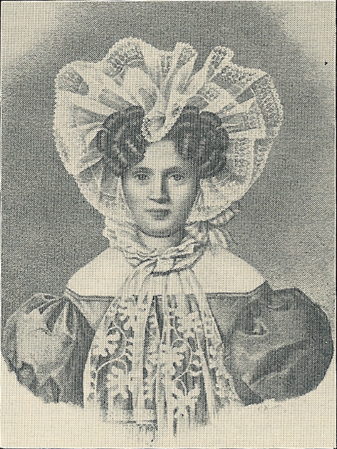 Petrea Lund (maiden name Kierkegaard). The youngest sister of Søren Kierkegaard.